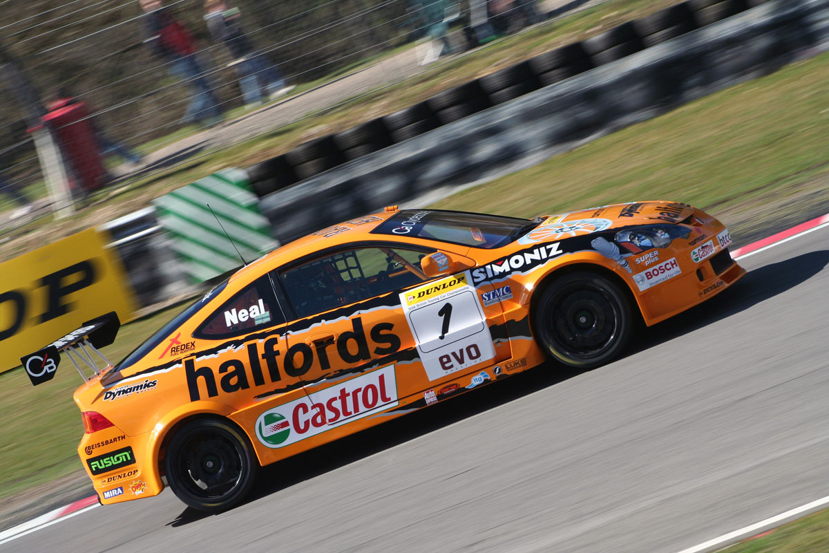 Matt Neal driving a Honda at the Brands Hatch round of the 2006 British Touring Car Championship.